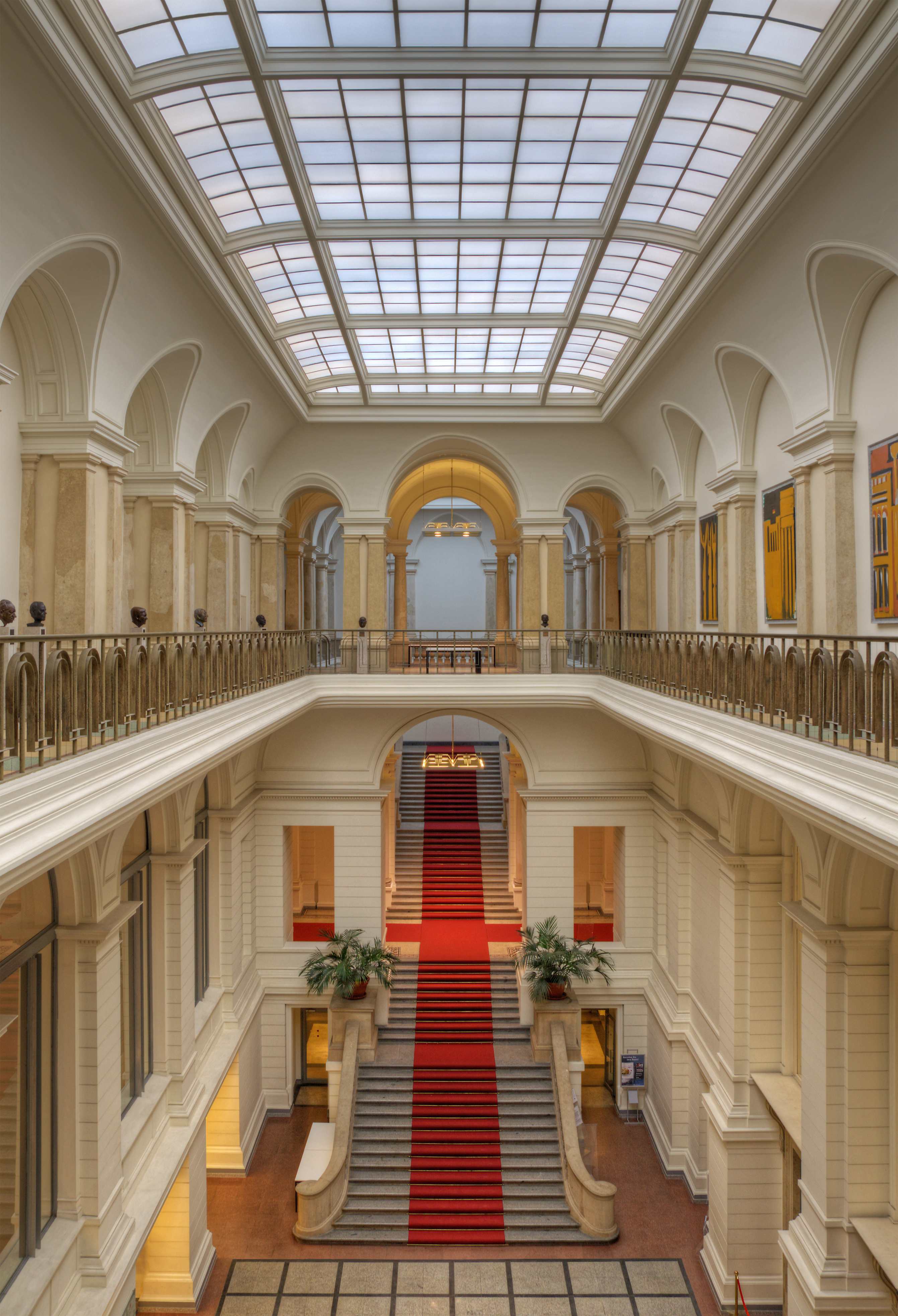 Prussian Landtag, Niederkirchnerstr. 5, Berlin, Germany. Today this building is the residence of the parliament of the State of Berlin. Interiors of the building.